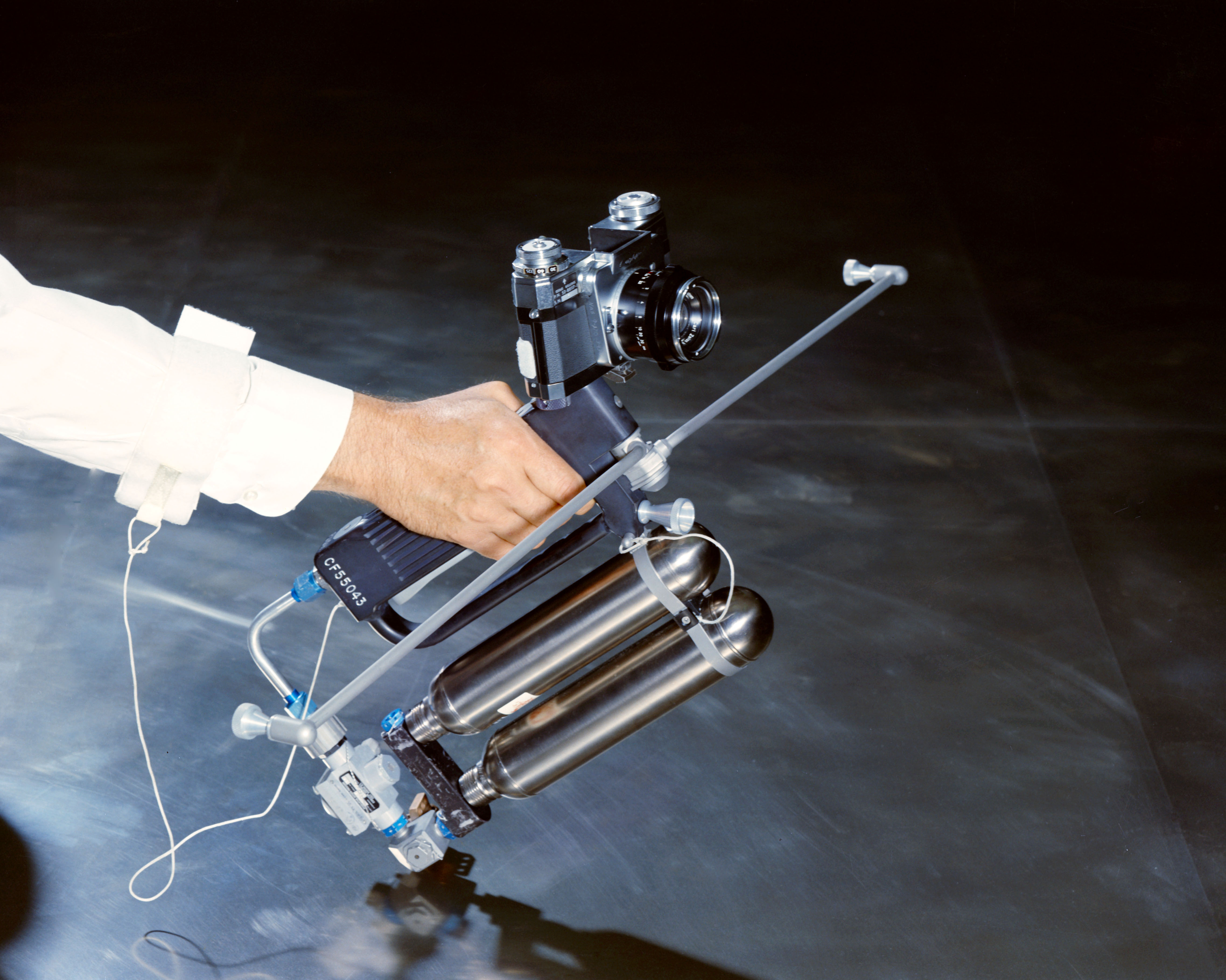 S65-27331 - Hand-Held Self-Maneuvering Unit to be used during extravehicular activity (EVA) on Gemini 4 flight. It is an integral unit that contains its own high pressure metering valves and nozzles required to produce controlled thrust. A camera is mounted on the front of the unit.